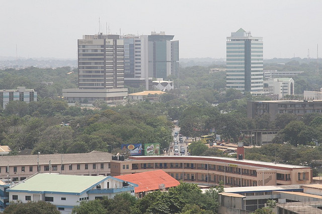 Taken by, Guido Sohne, with a Canon EOS 30D camera. The Mass media buildings in Ghana.